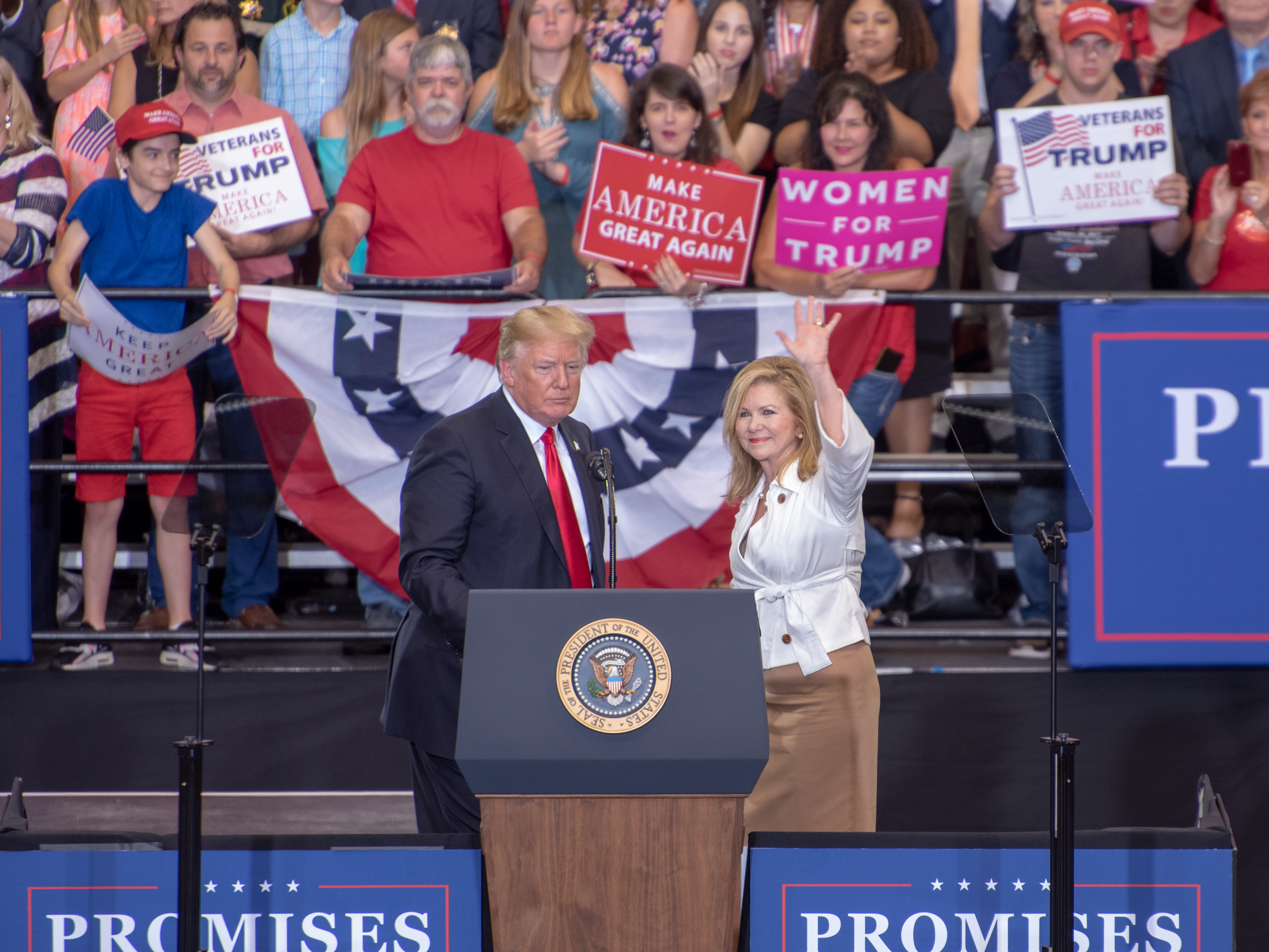 Marsha Blackburn and Donald Trump waving at Nashville Rally